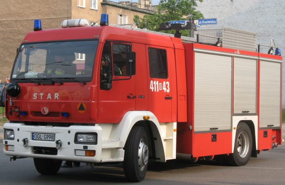 Polish fire brigade.